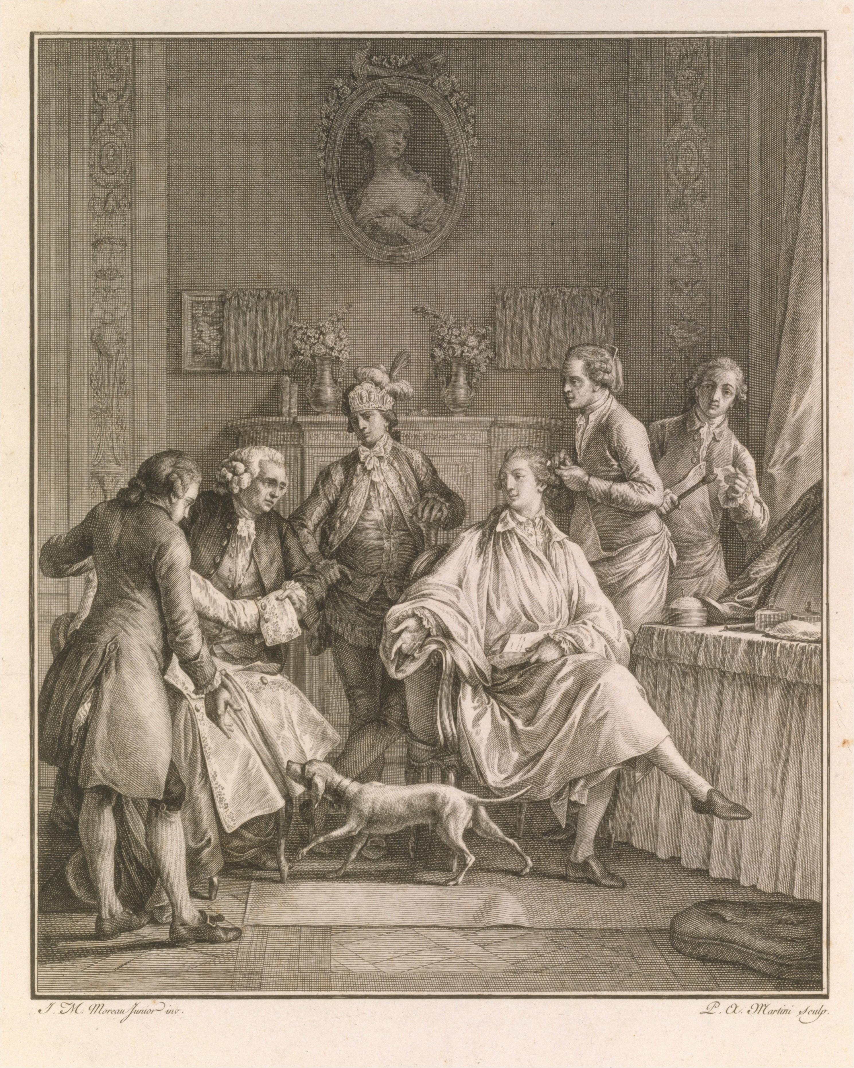 Print; Prints